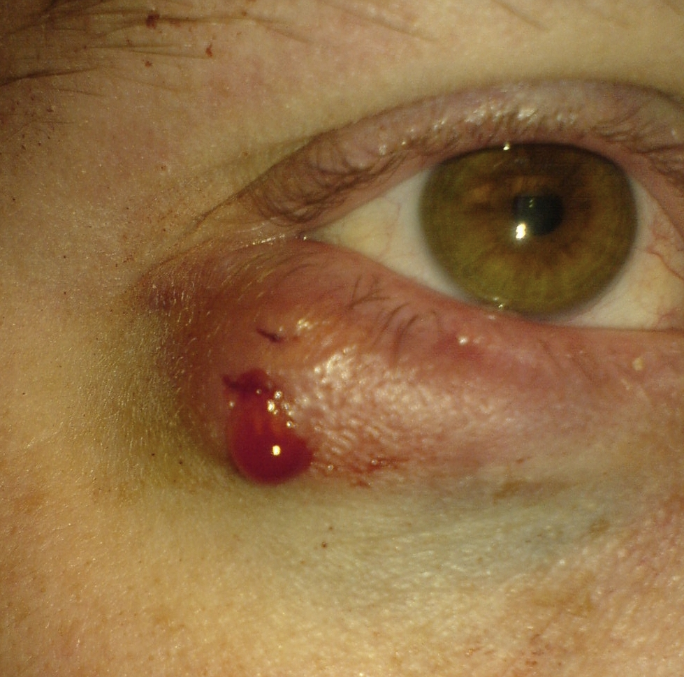 A chalazion immediately after excision